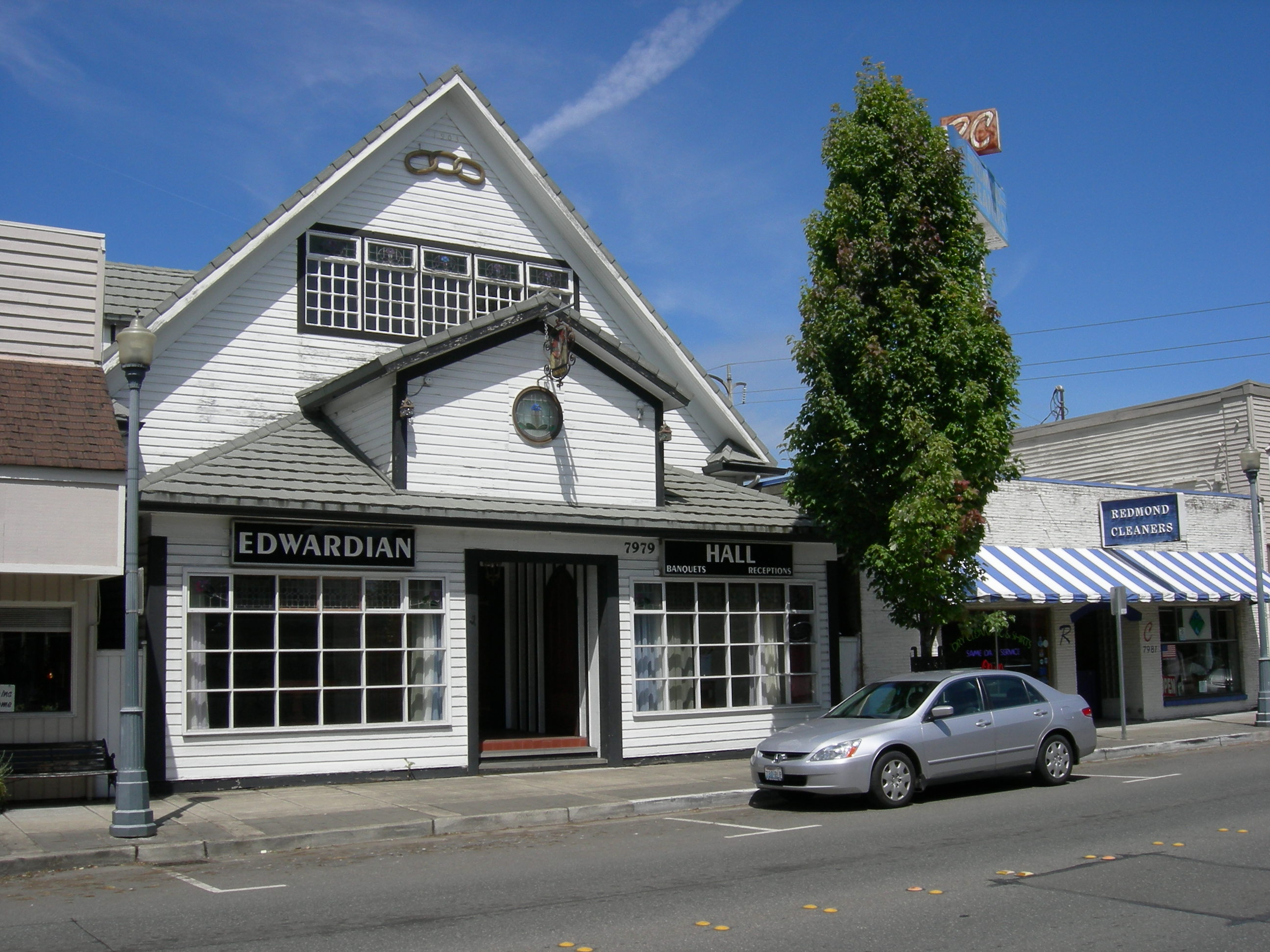 Edwardian Hall, a former Oddfellows Hall (built 1903), 7979 Leary Way, Redmond, Washington